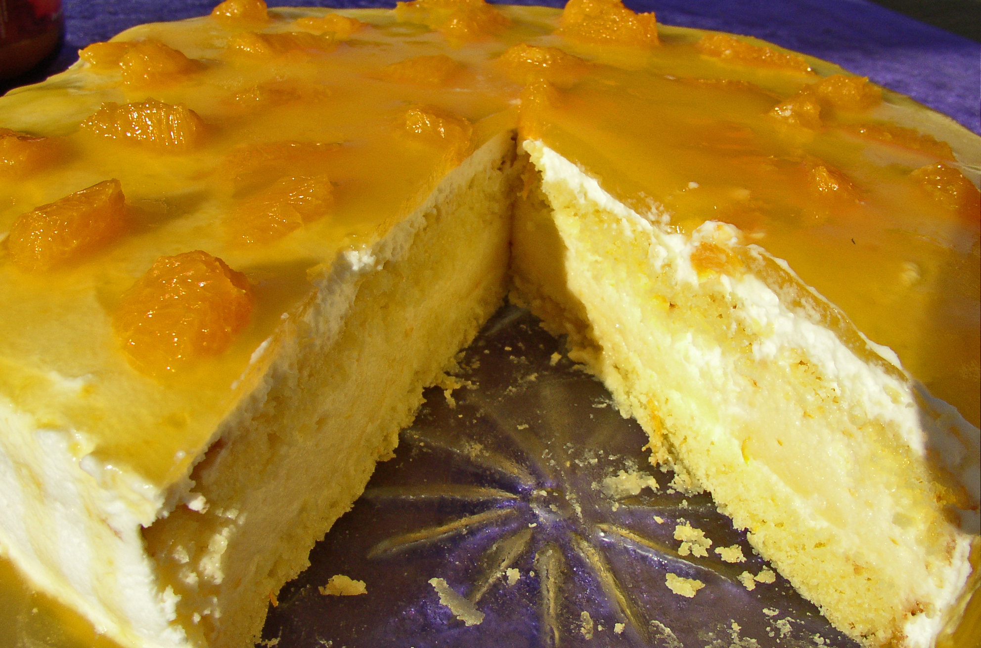 German orange cake ("Torte")